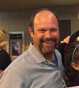 jay underwood posing for a picture